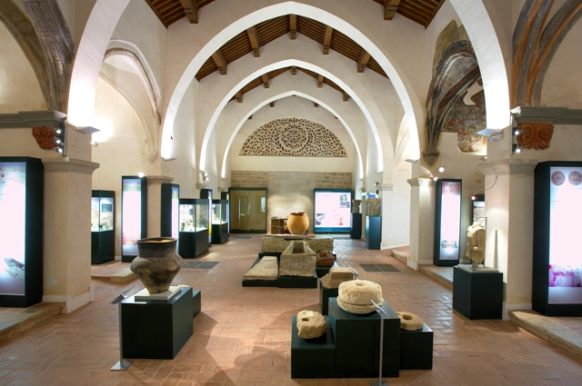 archeological museum borja (Spain)